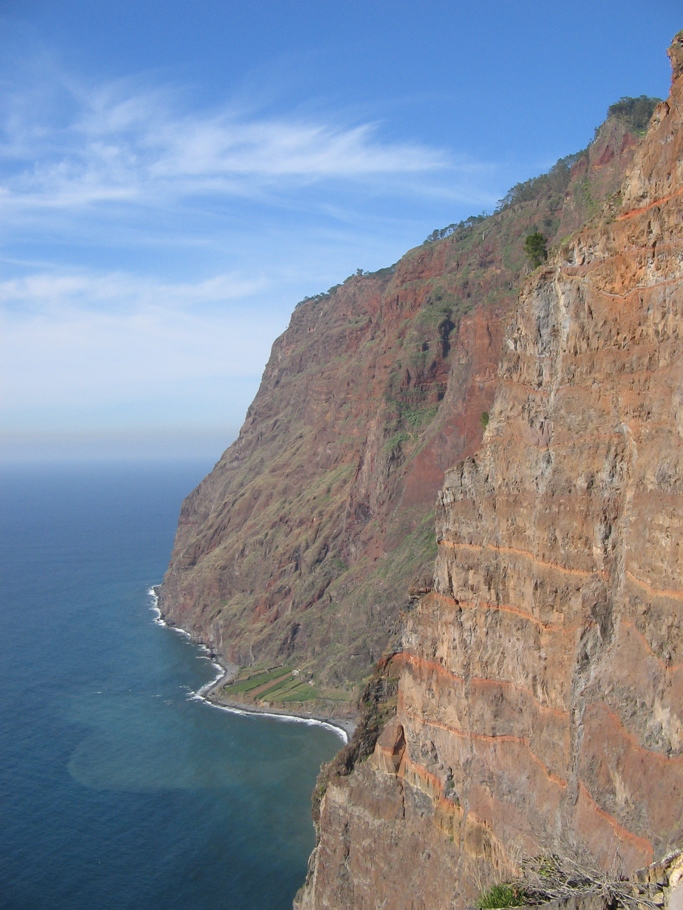 Cabo Girão, Madeira, 2005